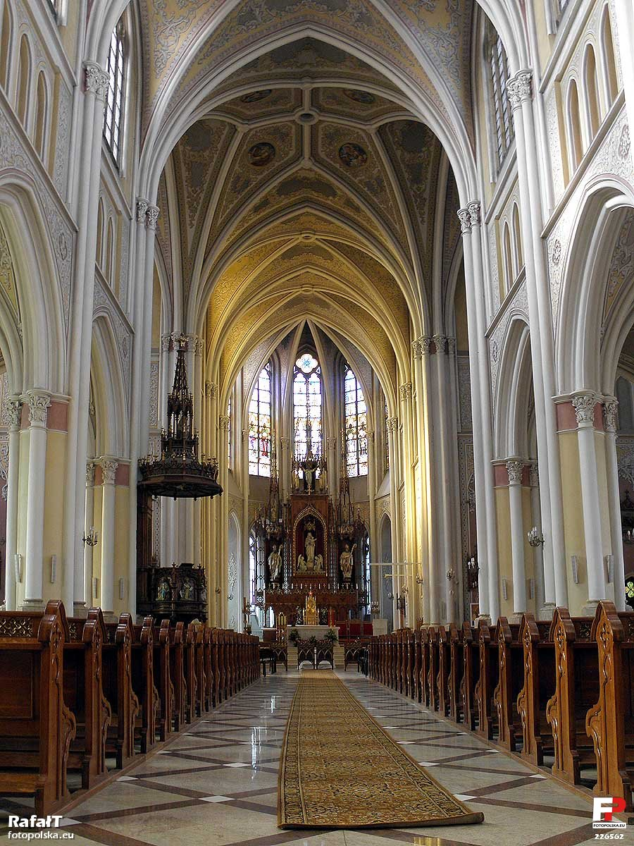 St. Mary's Cathedral in Radom, Poland - main nave with the main altar